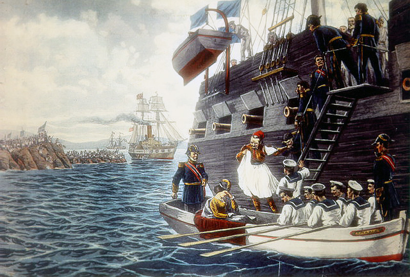 The expulsion of Otto of Wittelsbach King of Greece in 1862 as portrayed in a popular colour lithograph.